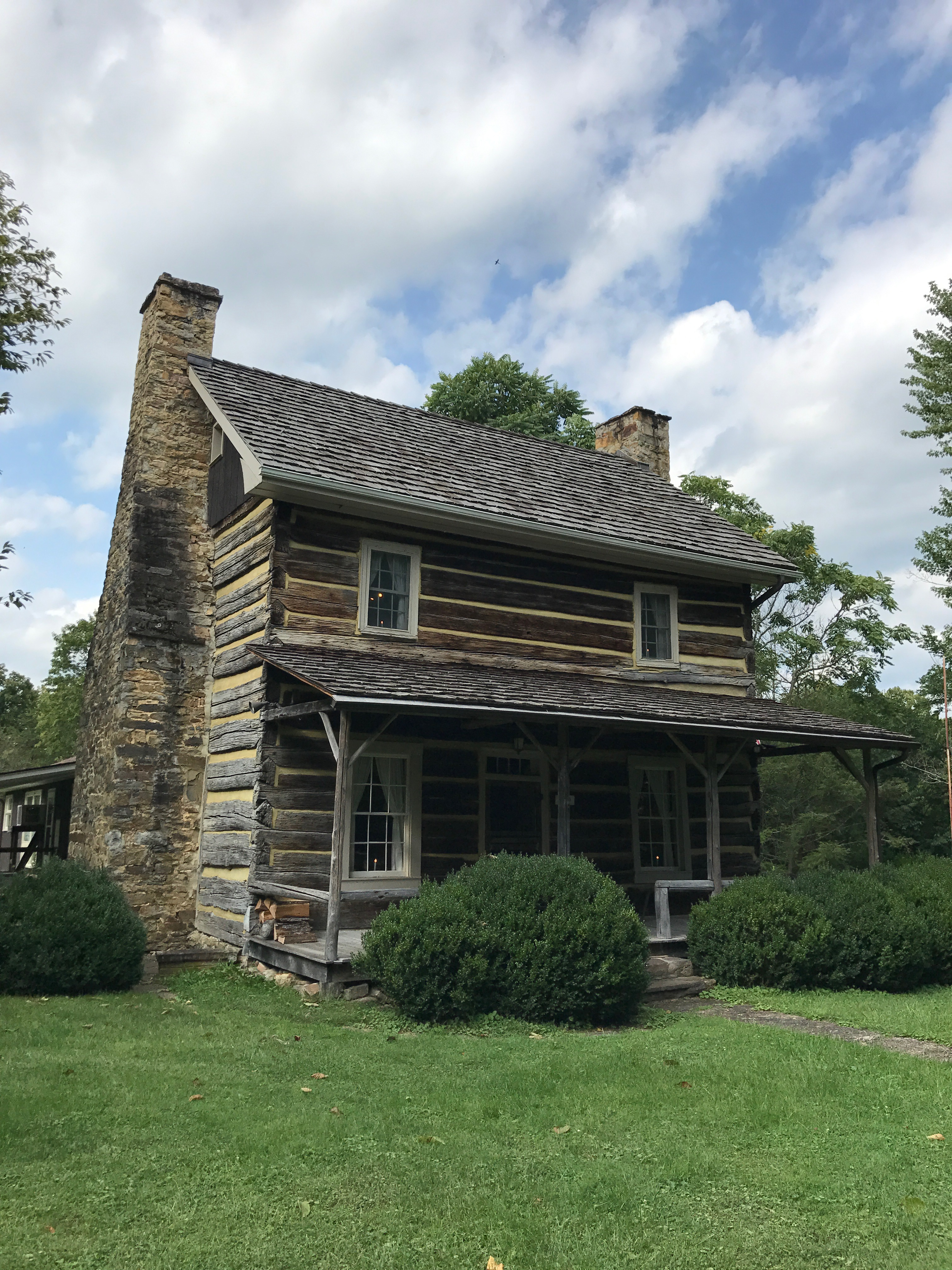 Col. James Graham House built 1770. Located in Lowell, WV.